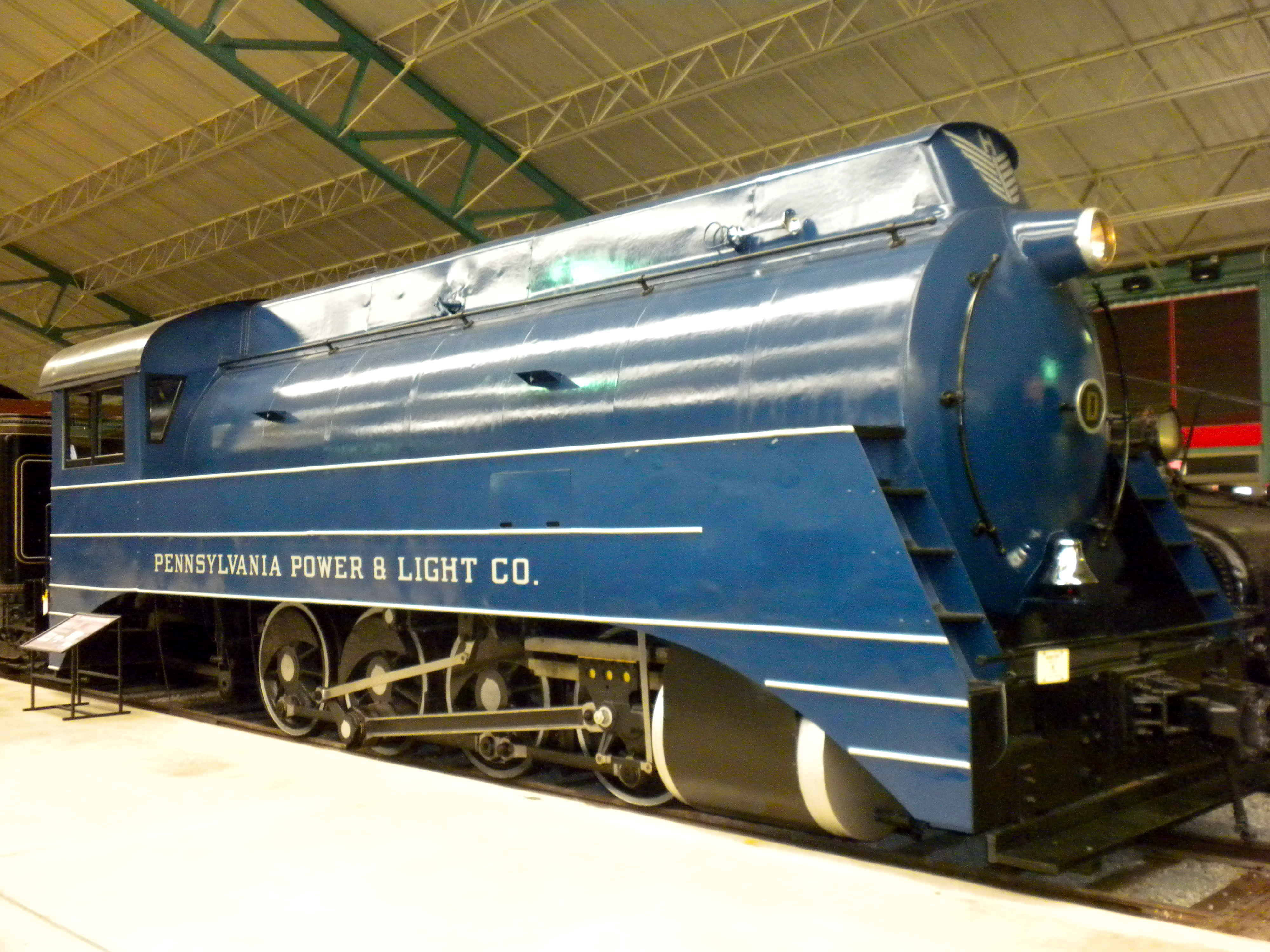 The front side view of the Pennsylvania Power and Light Company Fireless D No. 4094 at the Railroad Museum of Pennsylvania, east of Strasburg, PA. This is a fireless 0-8-0 locomotive. The car is listed on the roster as RR72.20.1A. It is the largest fireless locomotive ever built. It was built for the Hammermill Paper Company, but it turned out to be too heavy for their tracks.